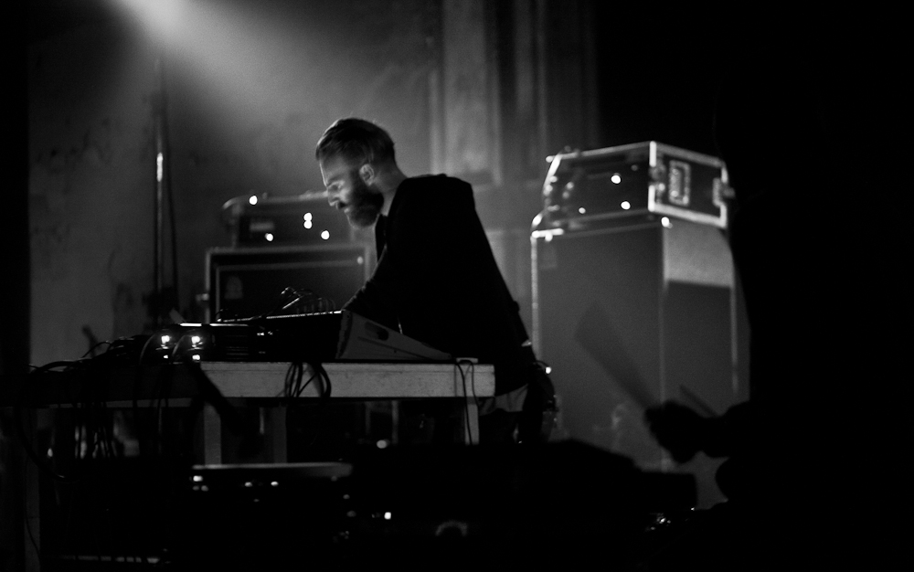 Ben Frost performing